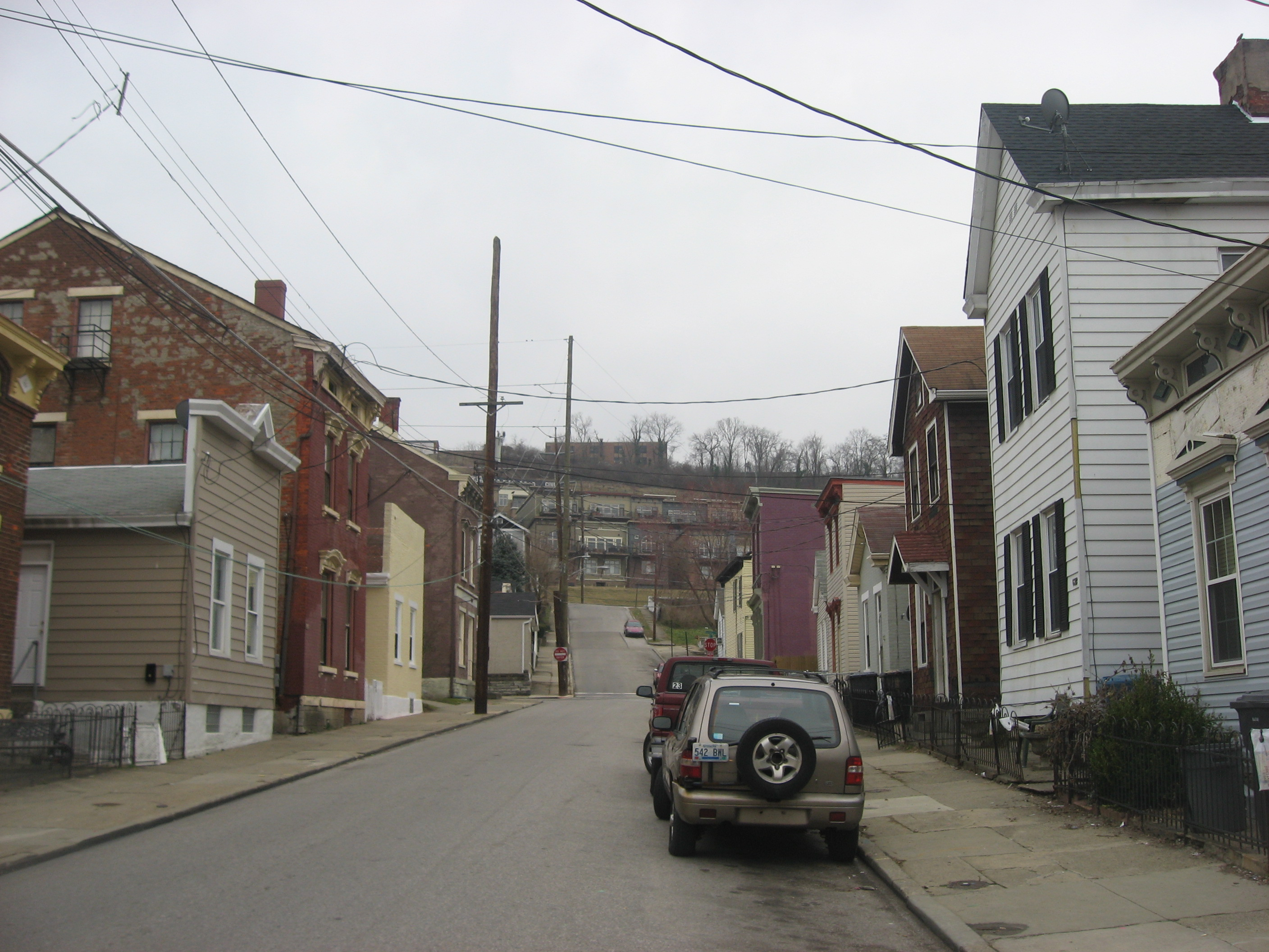 Houses along Twelfth Street east of the Hermes Avenue intersection in Covington, Kentucky, United States. This block is part of the Lewisburg Historic District, a historic district that is listed on the National Register of Historic Places.